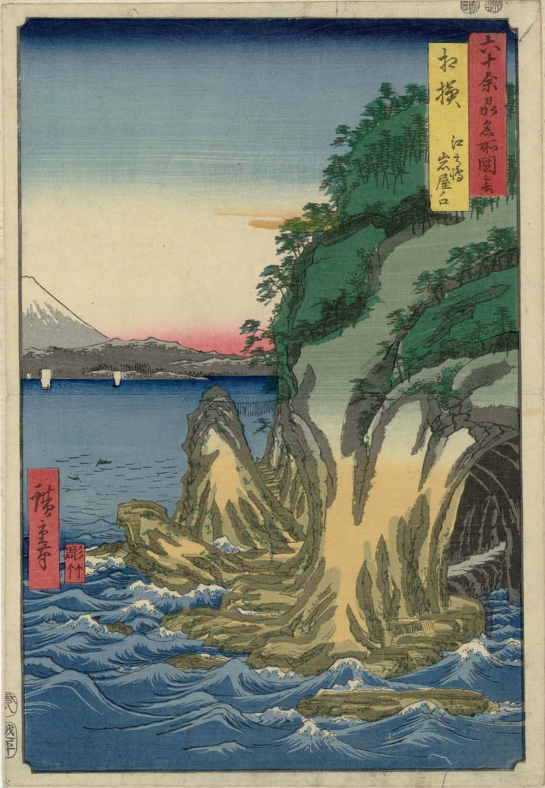 Part of the series Famous Places in the Sixty-odd Provinces, No. 15 (Tōkaidō group)